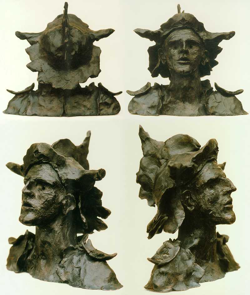 Nr. 542. 10×9×5cm (4×4×2"), Terracotta, fired, aeruginous, plinthed · 10. November 1984